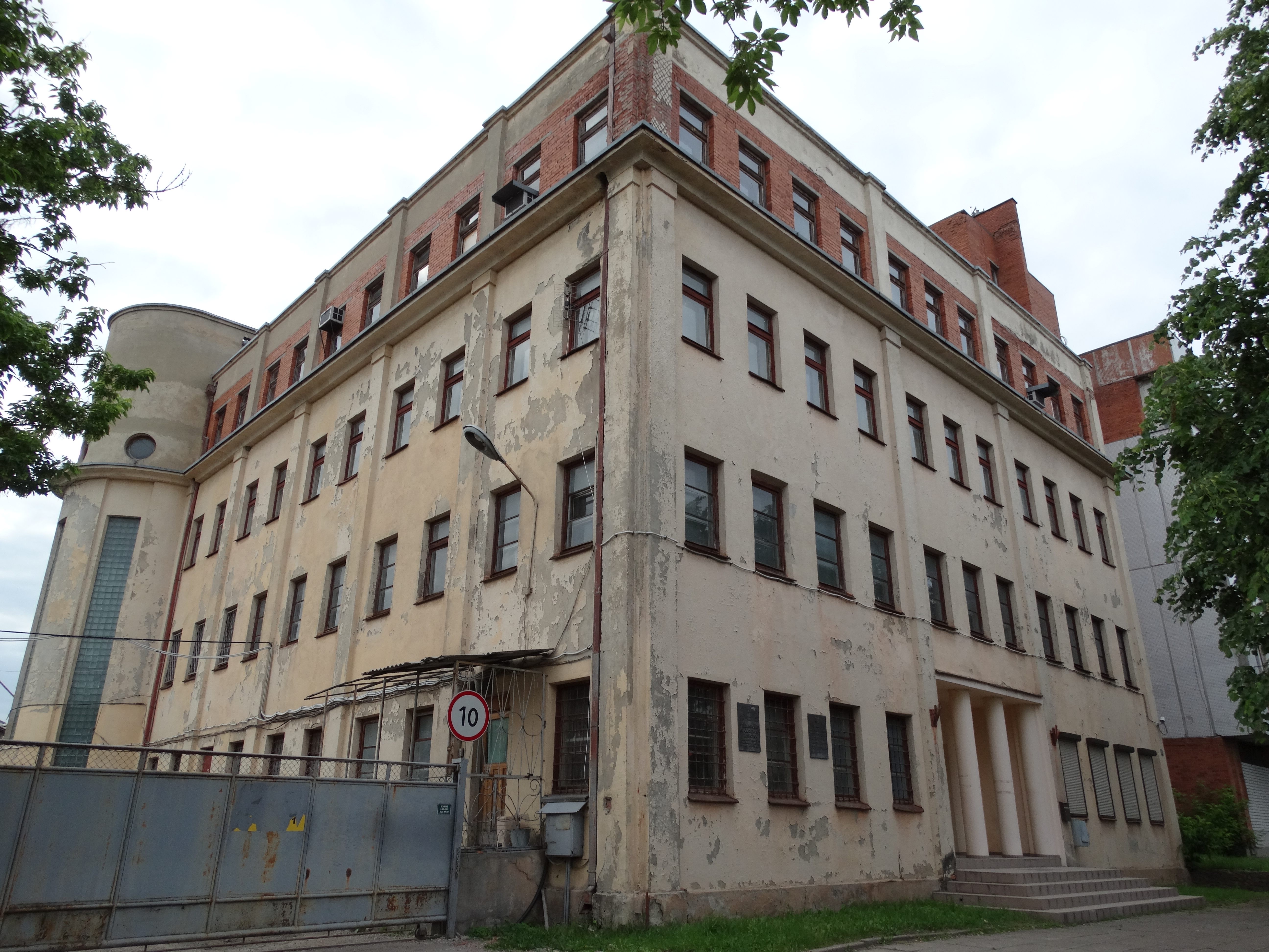 Former Vilijampolė (Slobodka) yeshiva, Kaunas, Lithuania